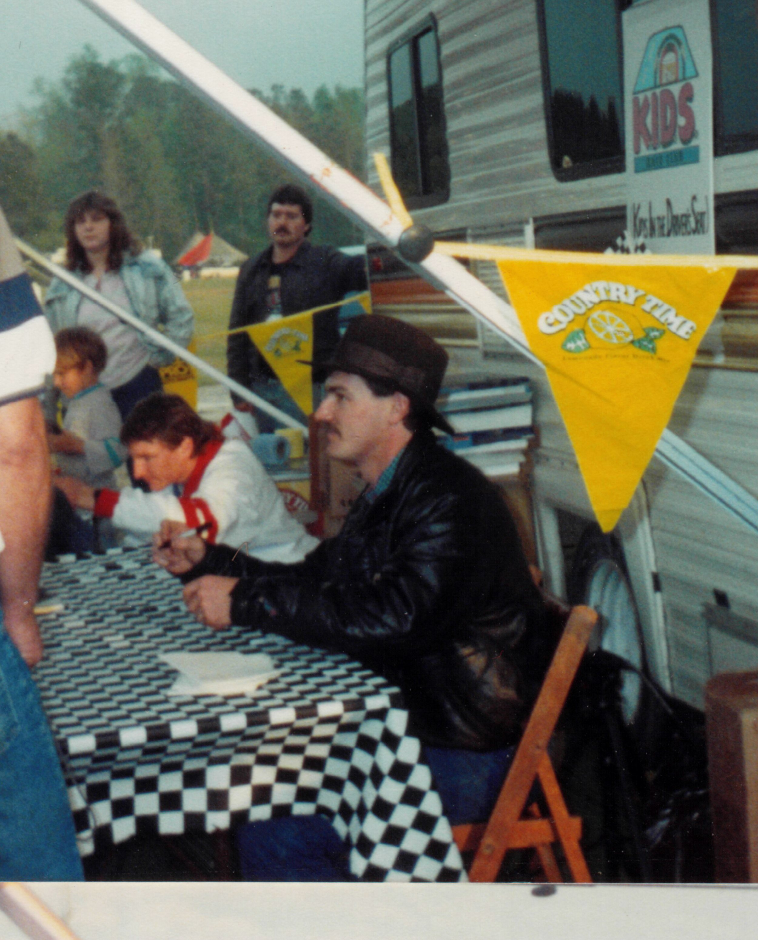 NASCAR driver Davey Allison signing autographs.